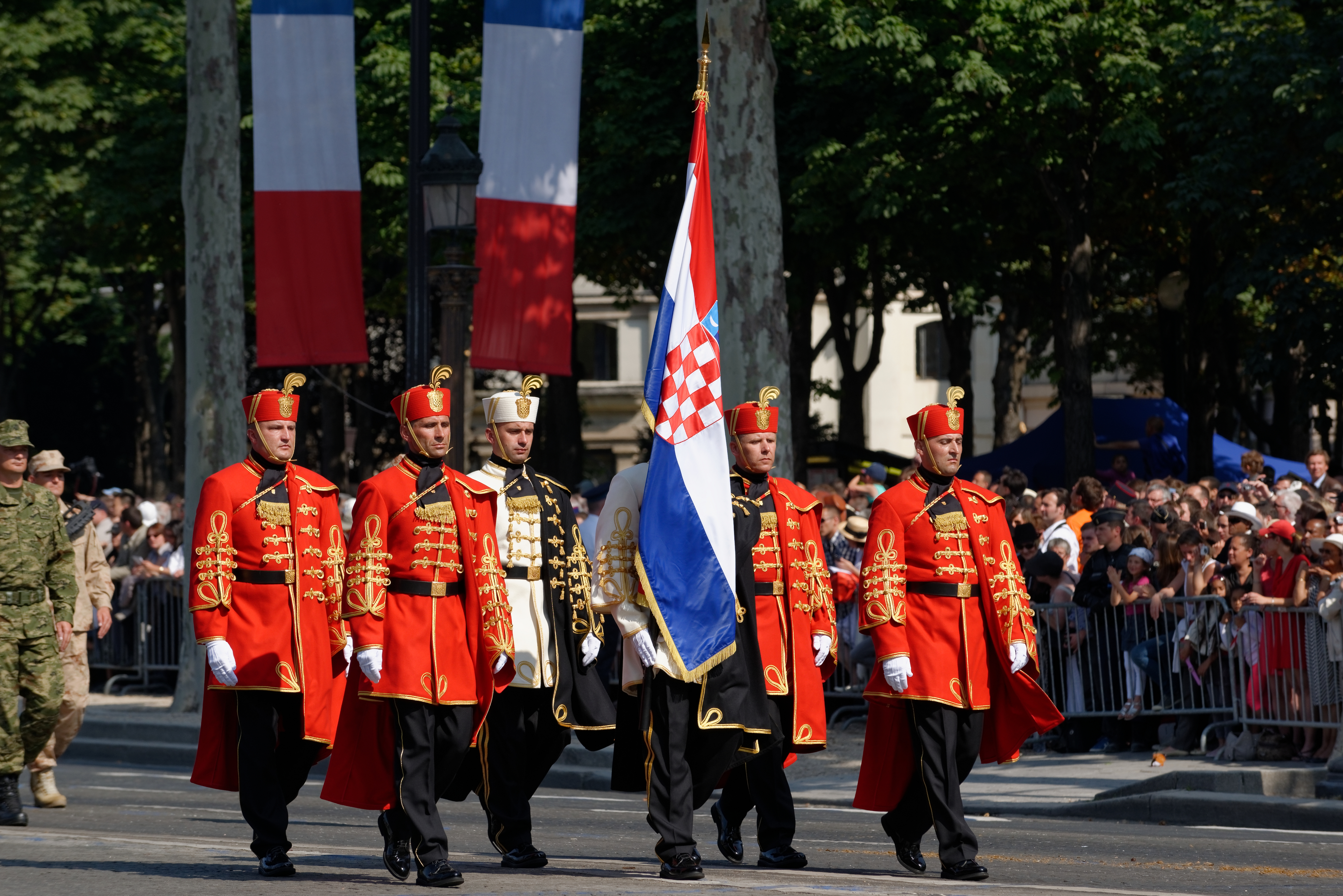 Colour guard of the Honor Guard Battalion at the Bastille Day 2013 military parade on the Champs Elysees in Paris.